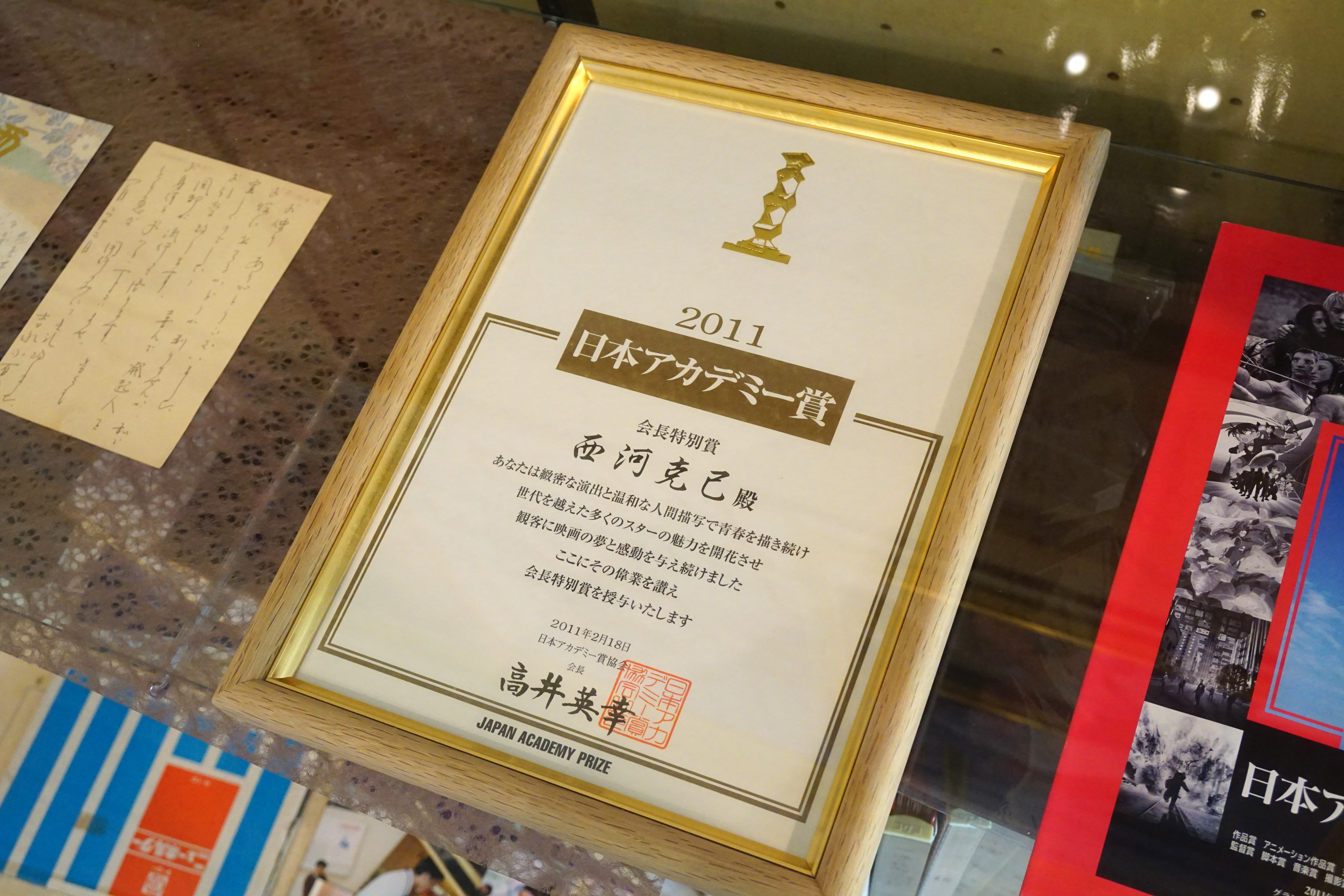 Katsumi Nishikawa Film Museum in Chizu, Tottori prefecture, Japan